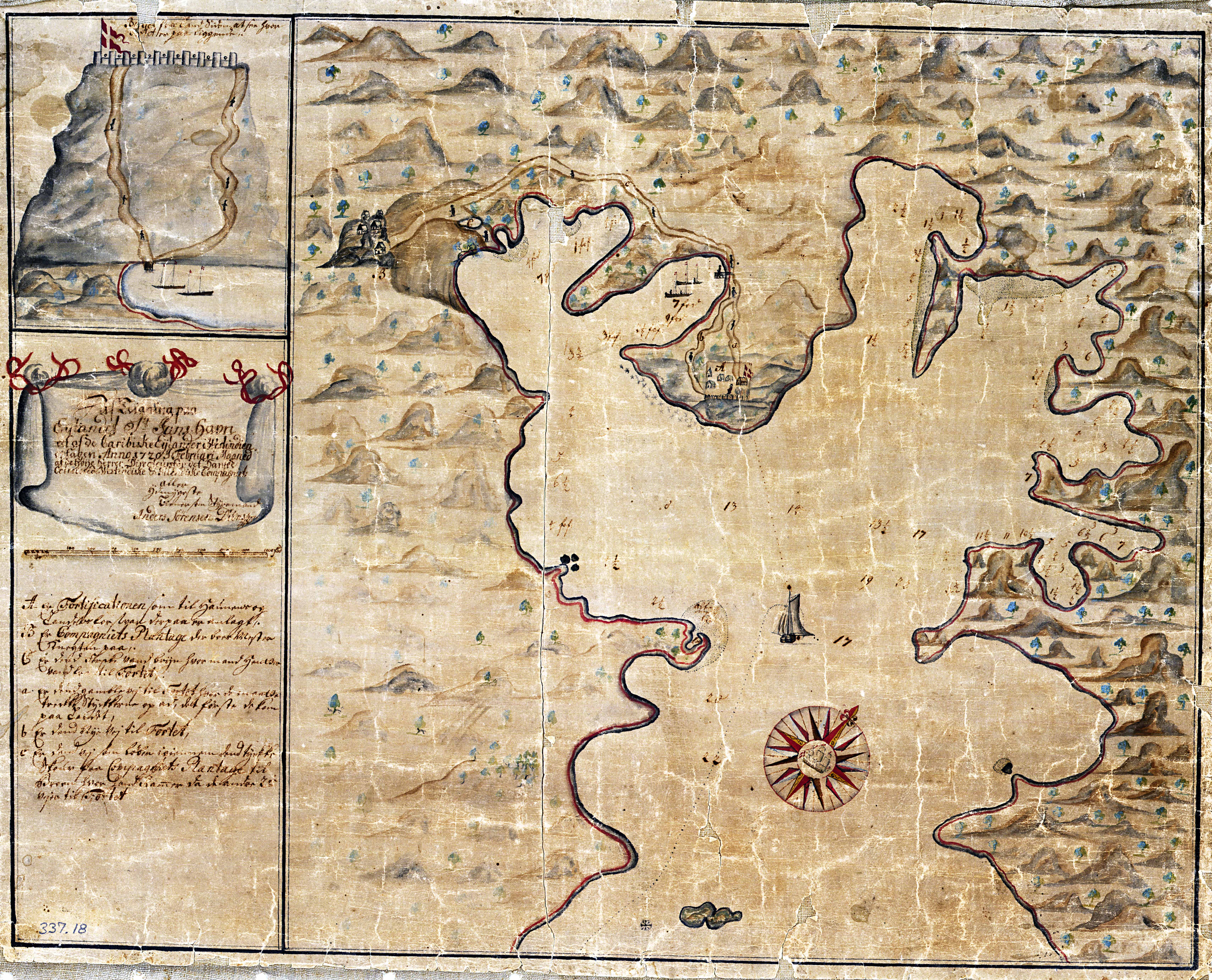 Map of the harbor and surroundings at Coral Bay on St. John. This map was made in 1720 and sent to the board of directors of the West India and Guinea Company in Copenhagen.